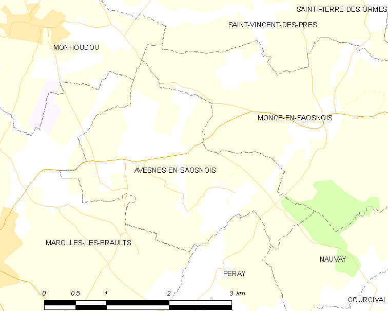 Map of French municipality